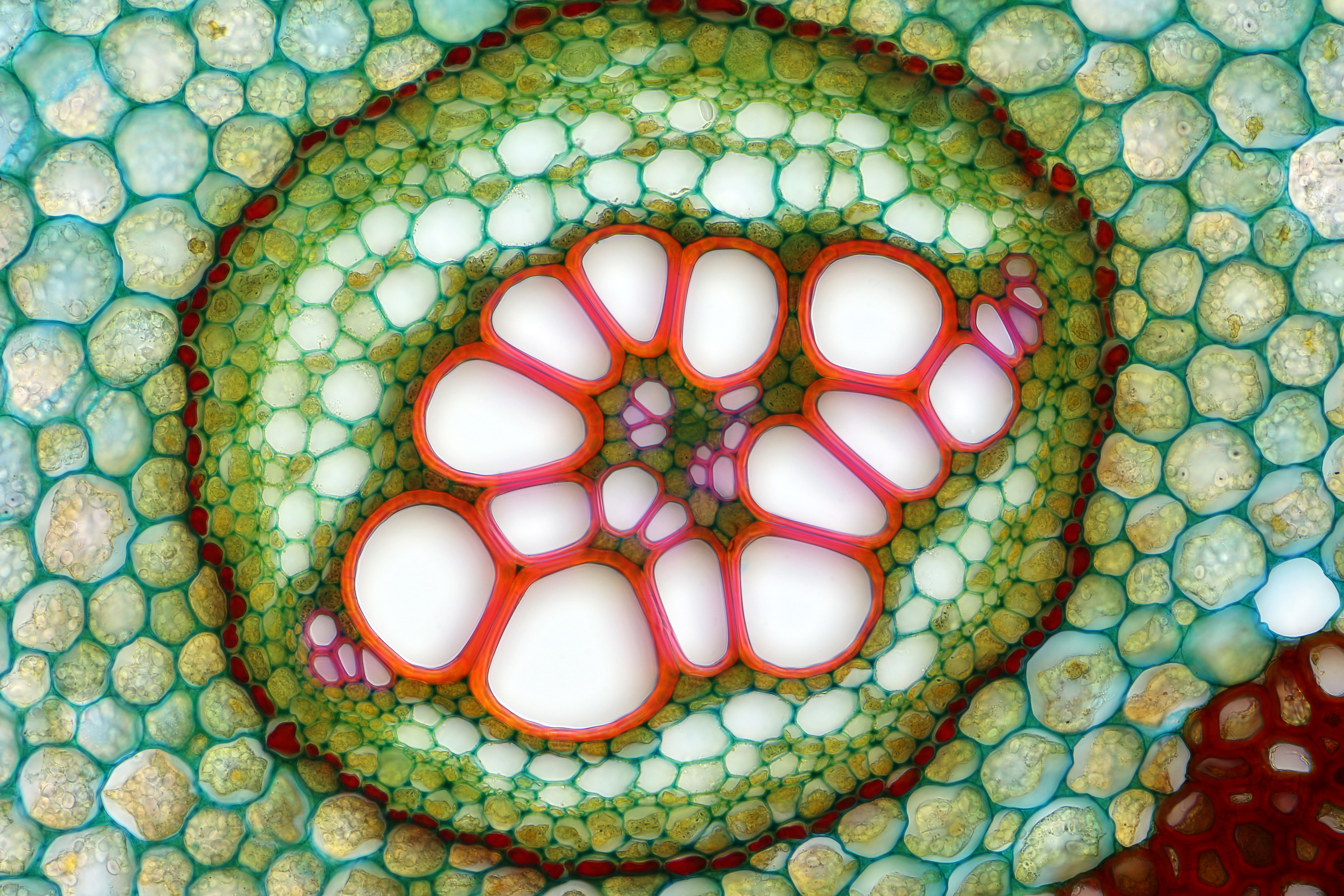 Amphycribral Vascular Bundle of a Fern Rhizome - Pterídium aquilínum Big cells with red cell wall are tracheids. They serve in the transport of water. Around the xylem there are xylem parenchyma and phloem cells. A single row layer of small cells (with red content) located circumferentially is endoderm. In the parenchyma there are amyloplasts which store starch granules. Authorial prepared mount, polychrome painted tissues Light microscopy, bright-field in transmitted light